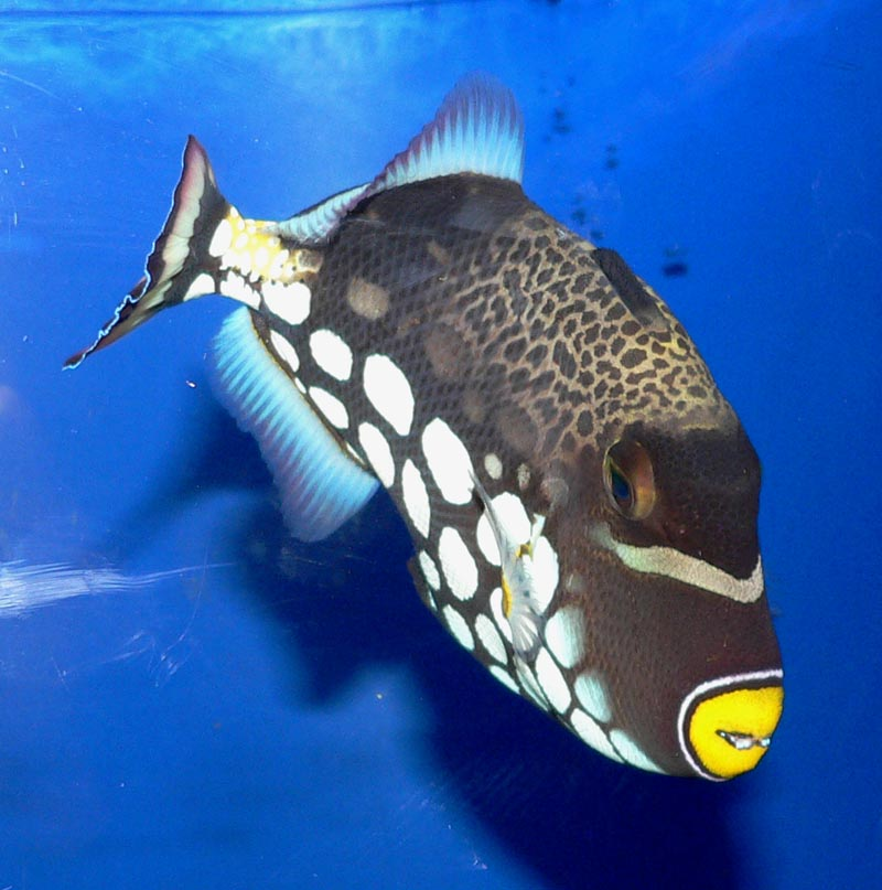 Photo of Balistoides conspicillum (clown triggerfish) at the Steinhart Aquarium in San Francisco